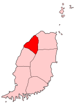 Map of Grenada showing Saint Mark parish.